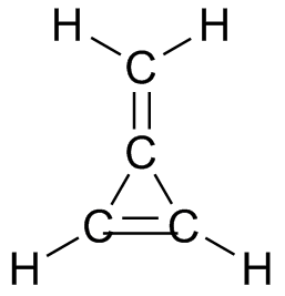 Methylenecyclopropene